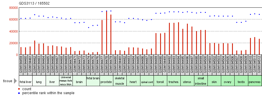 Tissue expression of TMCO4